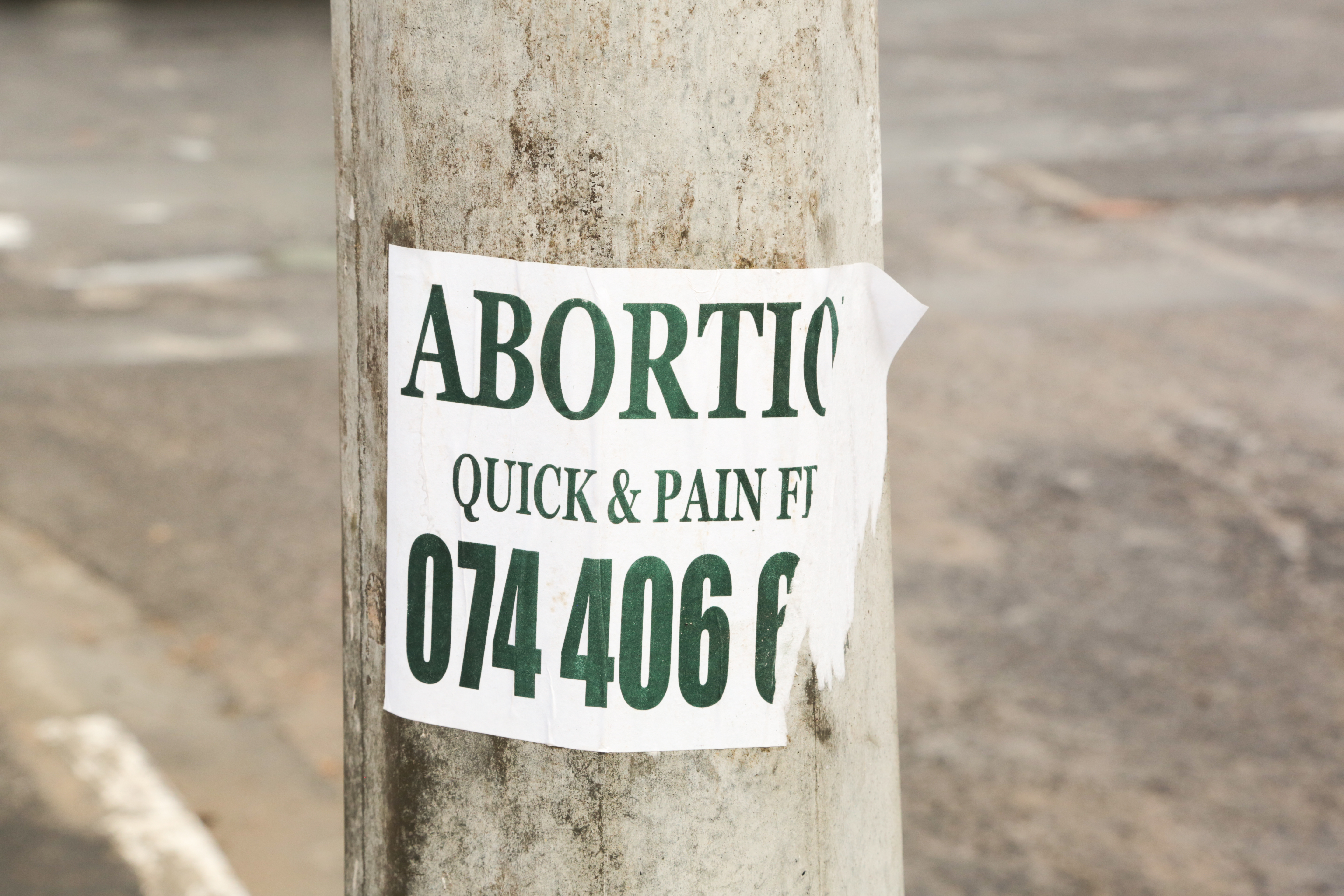 Abortion Quick & Pain Free sign, Joe Slovo Park, Cape Town, South Africa